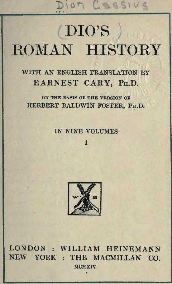 Dion Cassius' Roman History. With an English translation by Earnest Cary, Ph.D. on the basis of the version of Herbert Baldwin Foster, Ph.D.